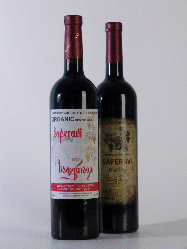 "Saperavi"(2008 harvest)